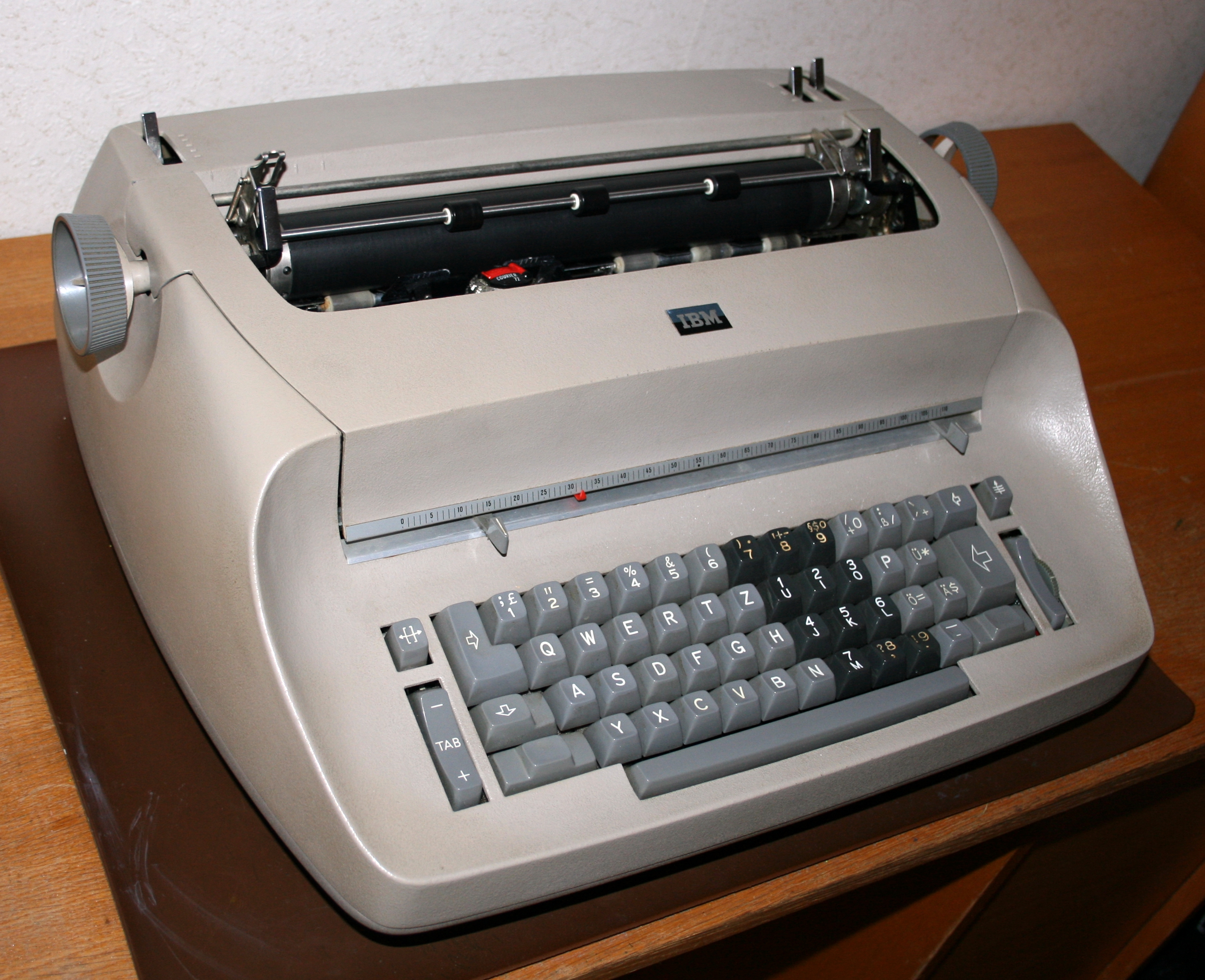 IBM electric typewriter model "Selectric", (1961-1986); design by Eliot Noyes.